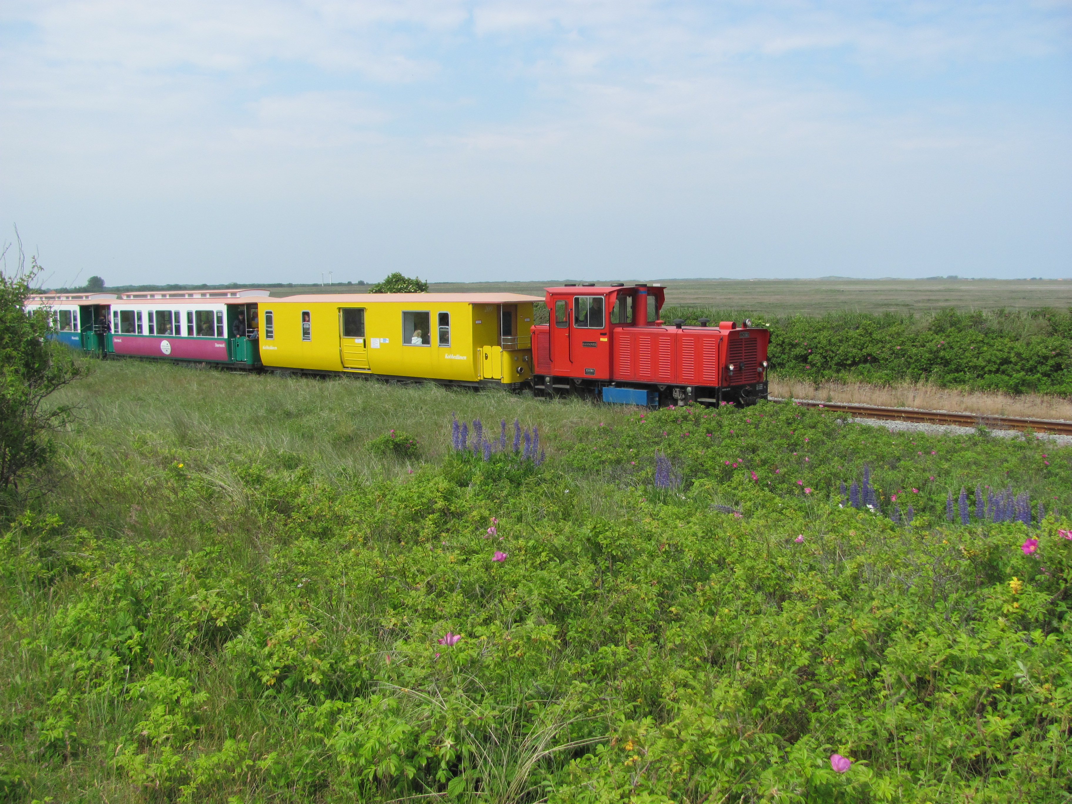 BKB on the line